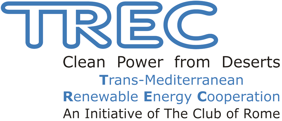 The Logo of TREC